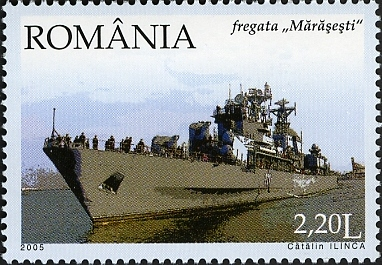 Stamps of Romania, 2005